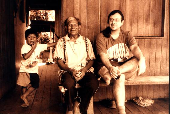 Esha (shaman and master singer) and Carlos Amador in a recording session in Guaymi indian comunity Costa Rica